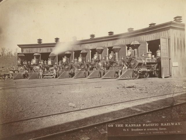 Title: No. 8. Roundhouse at Armstrong, Kansas. On the Kansas Pacific Railway. Physical Description: 1 photographic print: albumen; 19.25 x 25 cm. on 20 x 27.5 cm. mount File: vault_ag1982_0086_08_opt.jpg Rights: Please cite Southern Methodist University, Central University Libraries, DeGolyer Library when using this image file. A high-quality version of this file may be obtained for a fee by contacting .